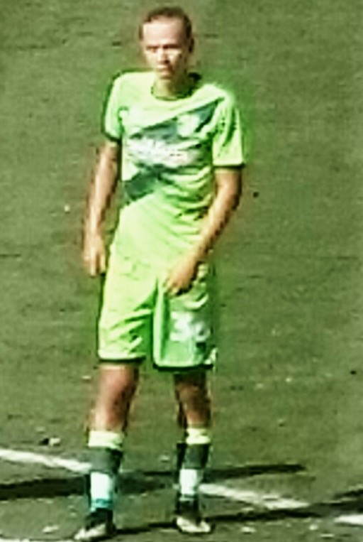 Todd Cantwell playing for Norwich City in a pre-season friendly against Charlton Athletic, 2018